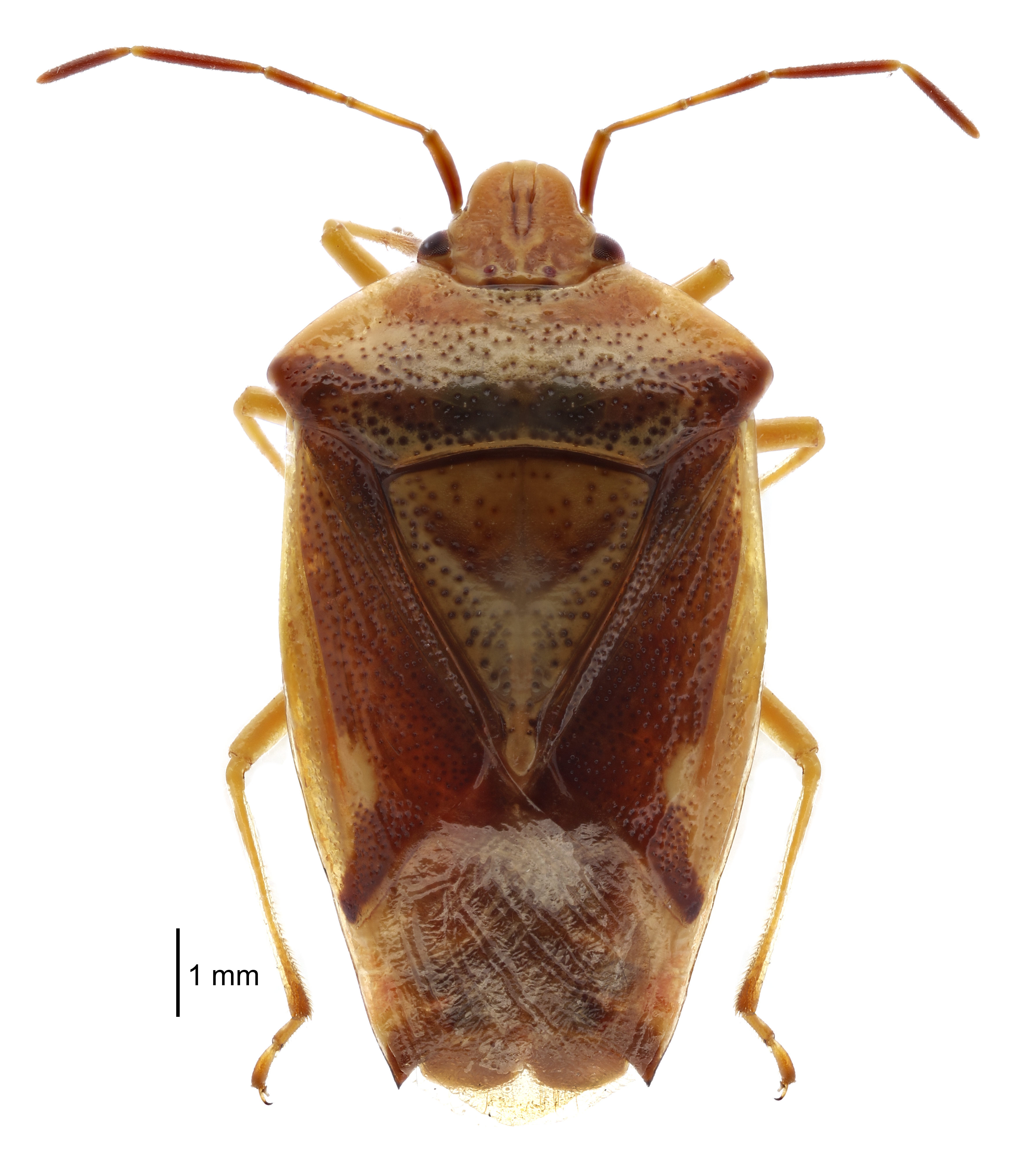 New Zealand forest shield bug (Oncacontias vittatus)